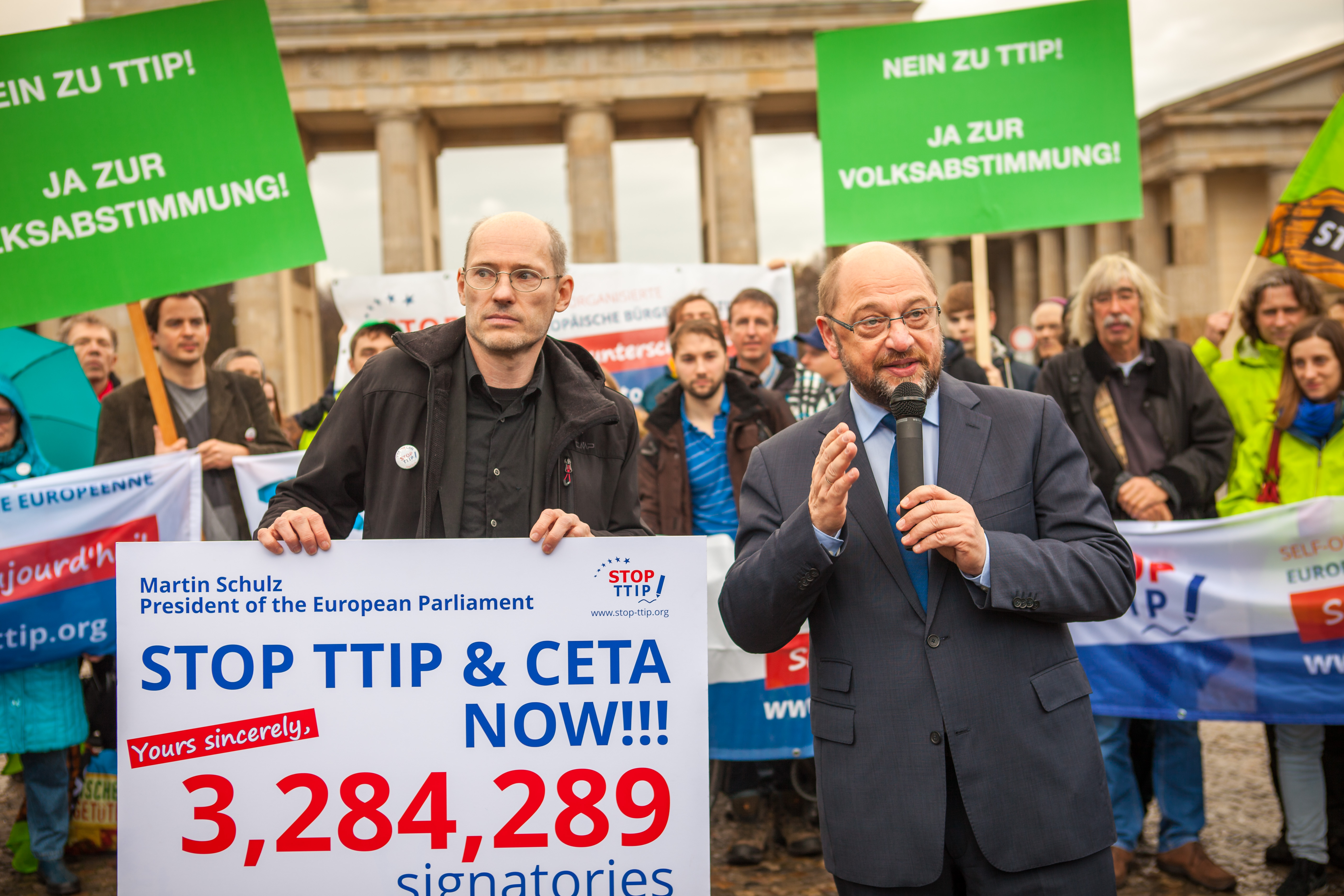 Stop TTIP hands petition results to Martin Schulz